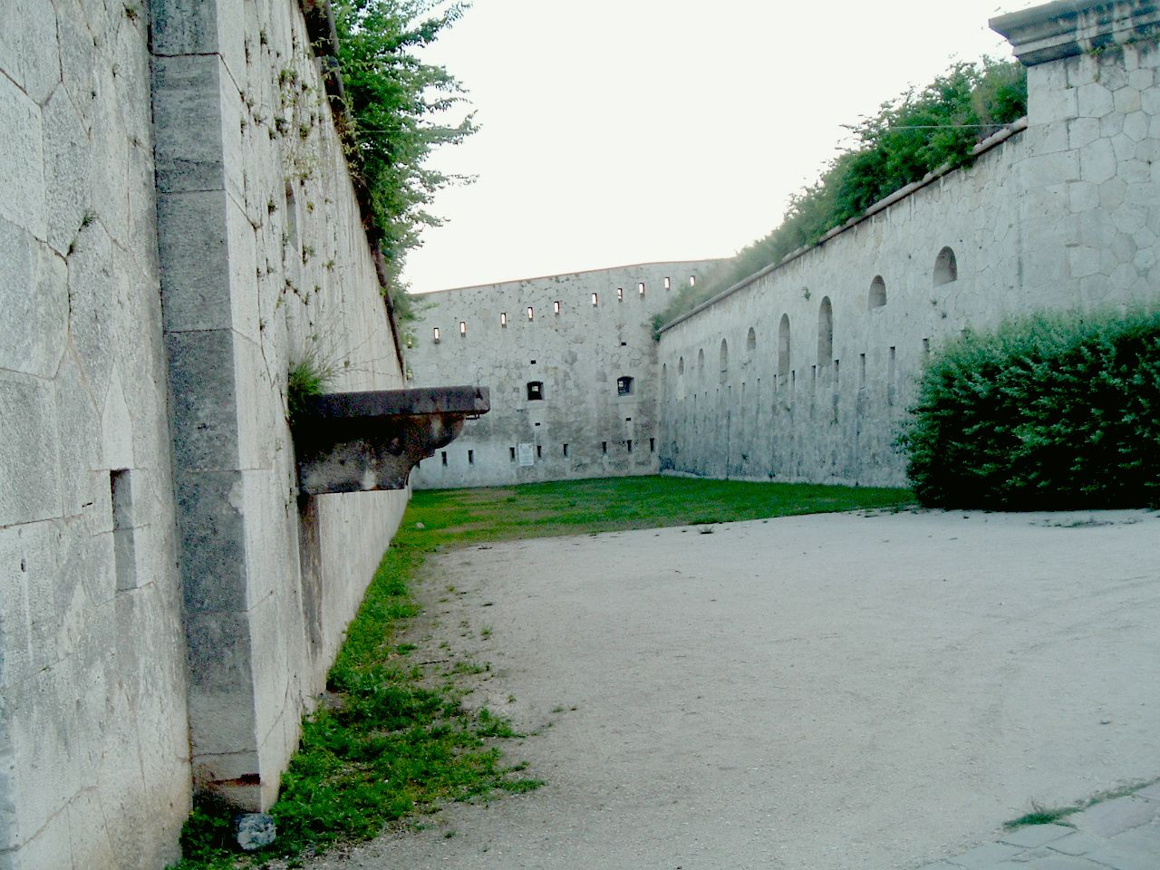 Komárom, Fort Monostori